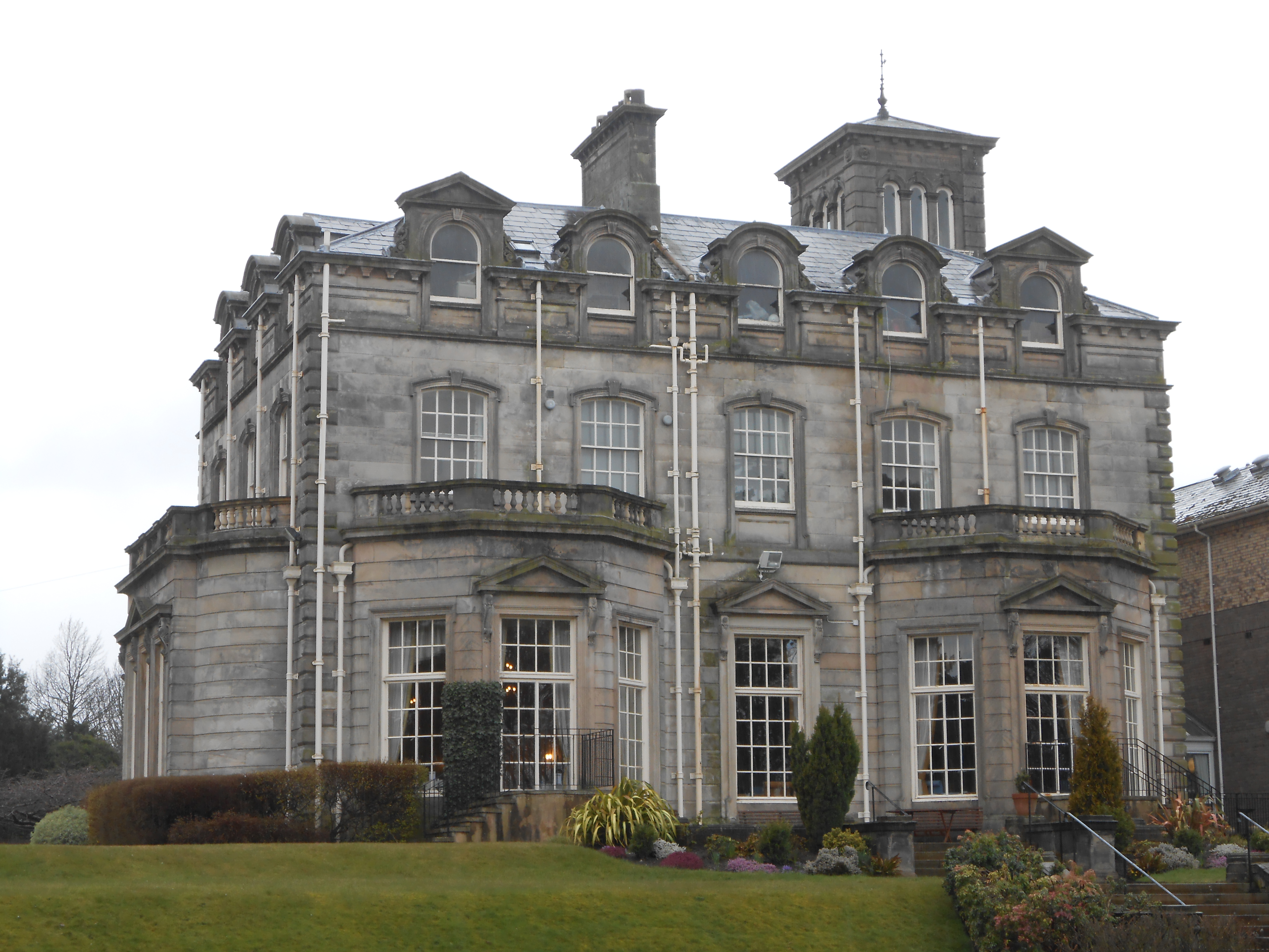 Photo taken in the grounds of Upton Manor, Wirral, Merseyside, England.